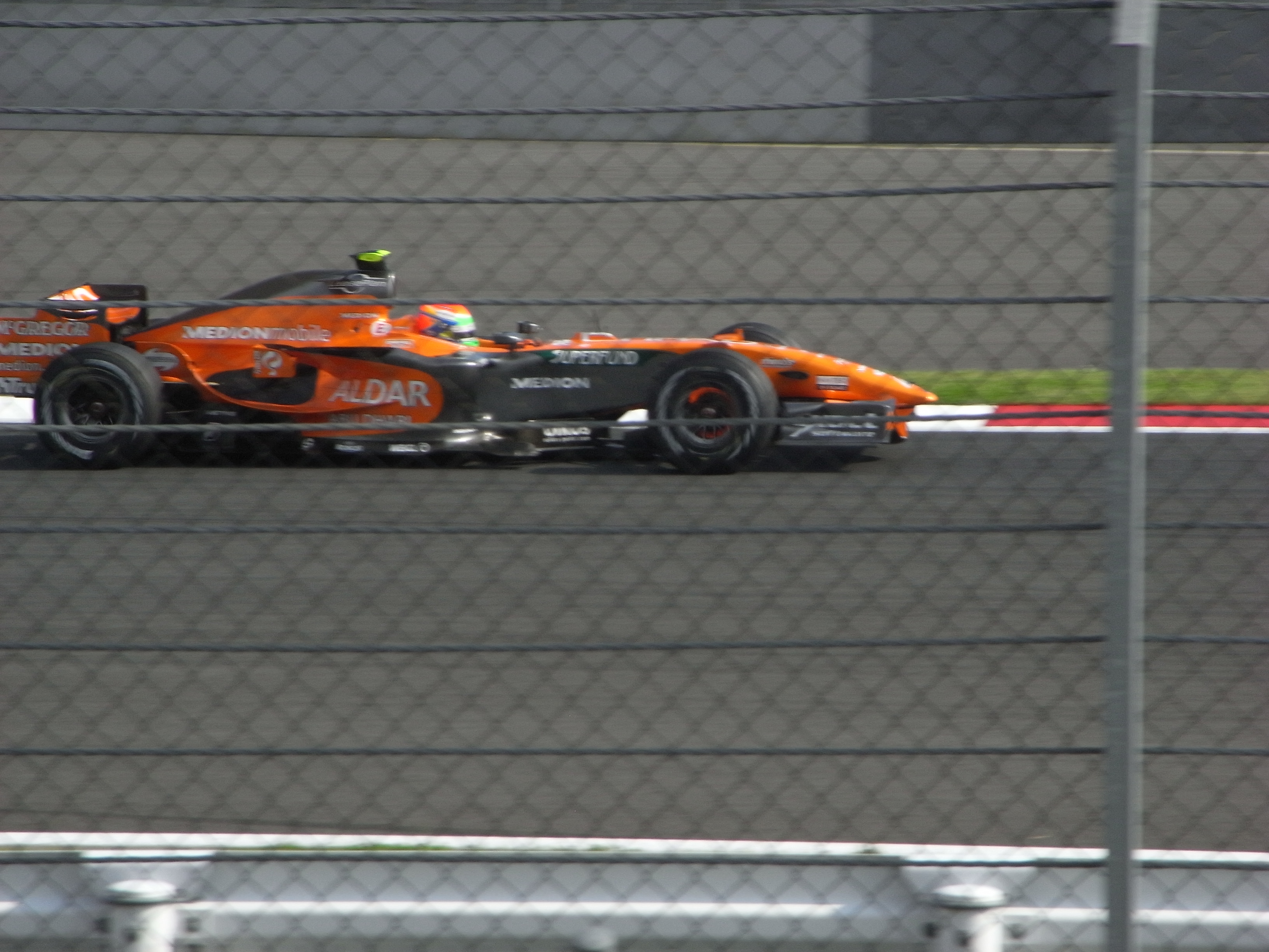 2007 Japanese Grand Prix, friday, Spyker